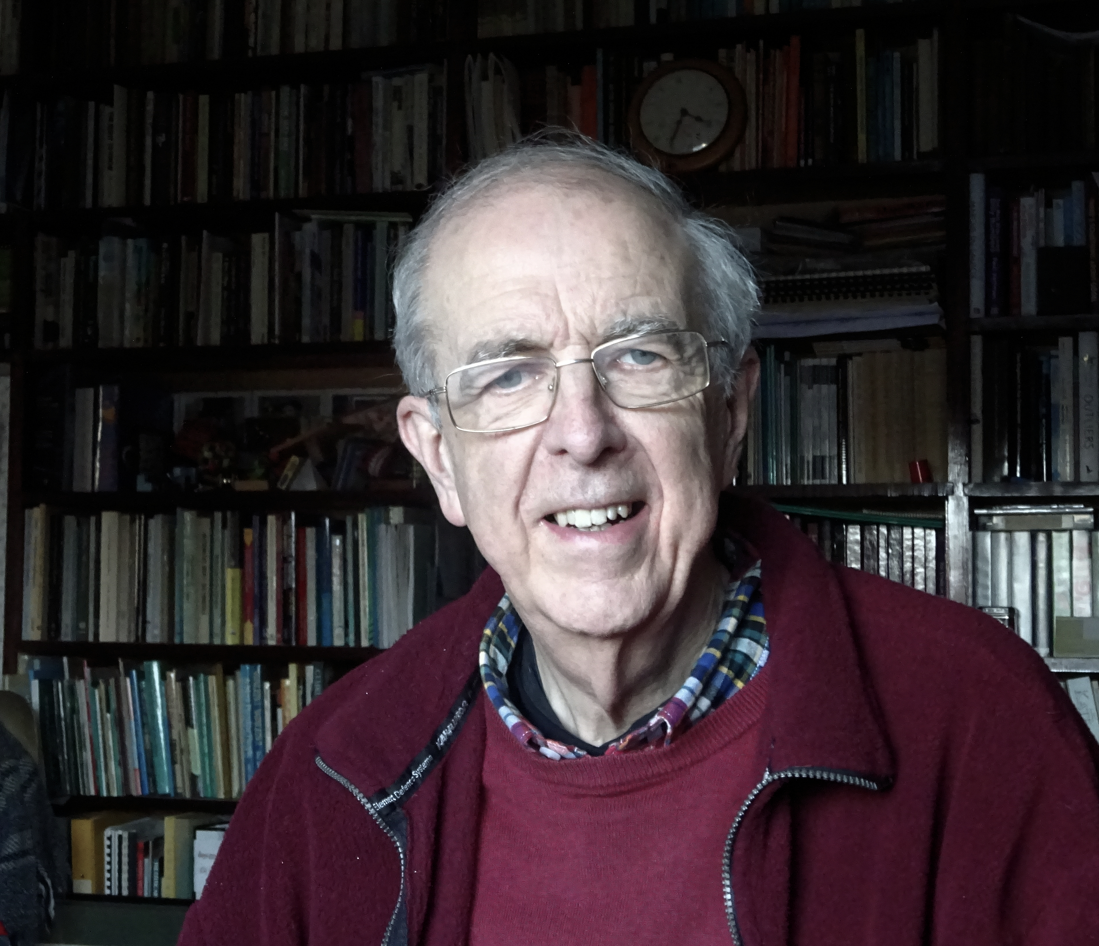 The author, mathematician and educator Prof Gareth Ffowc Roberts at his office at home in Bangor, Wales, Feb 2020.